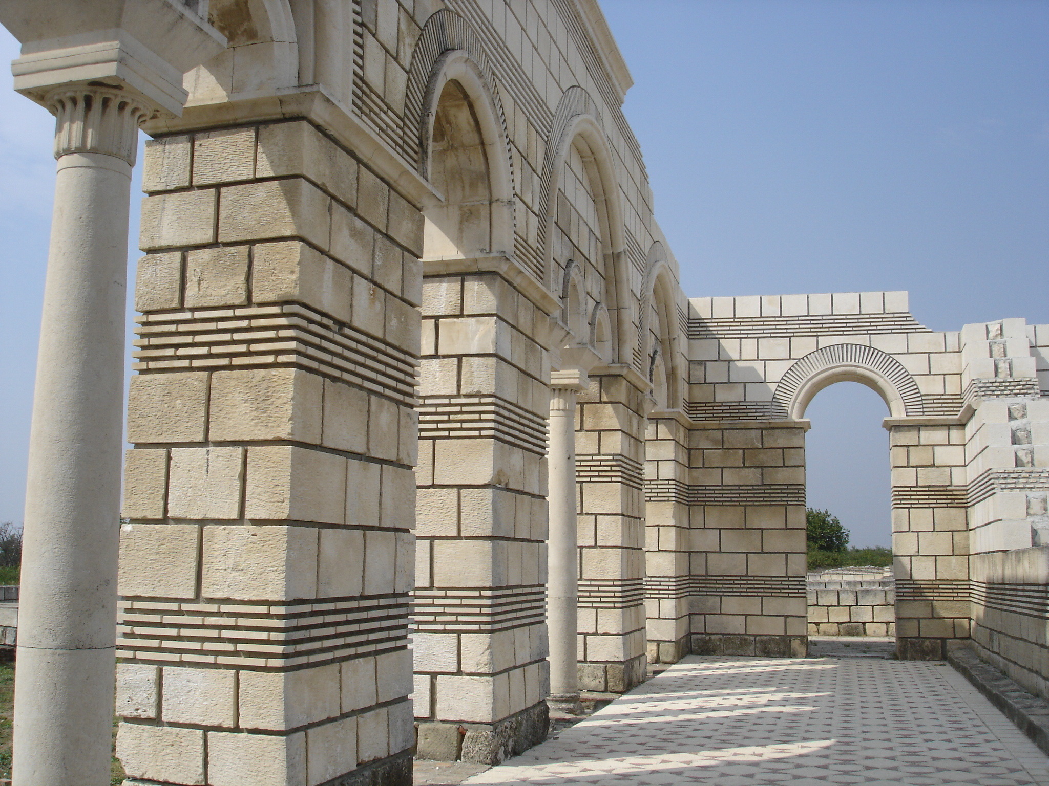 Old Basilica in First Bulgarian Capital Pliska